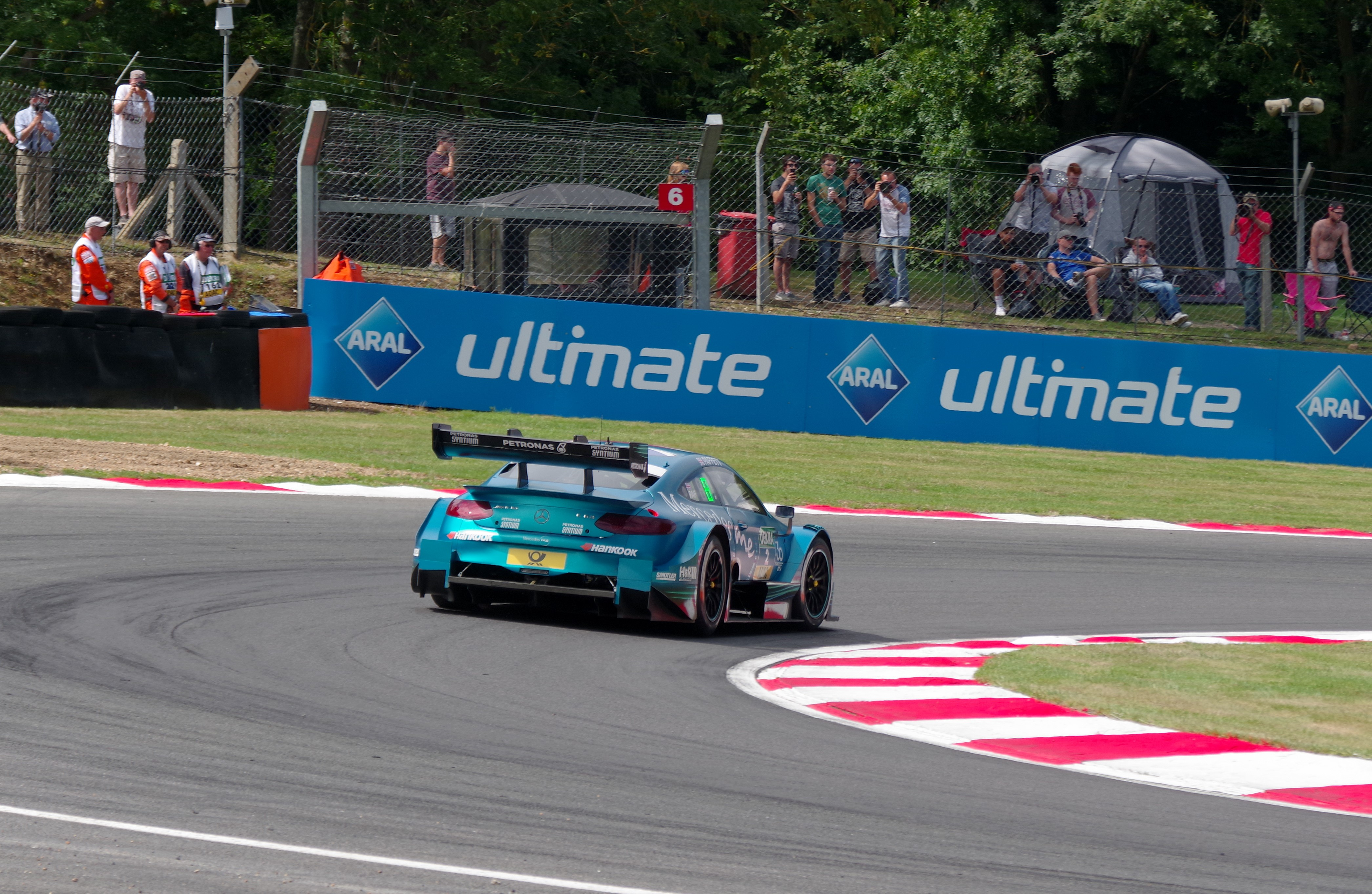 2018 Deutsche Tourenwagen Masters, Brands Hatch.